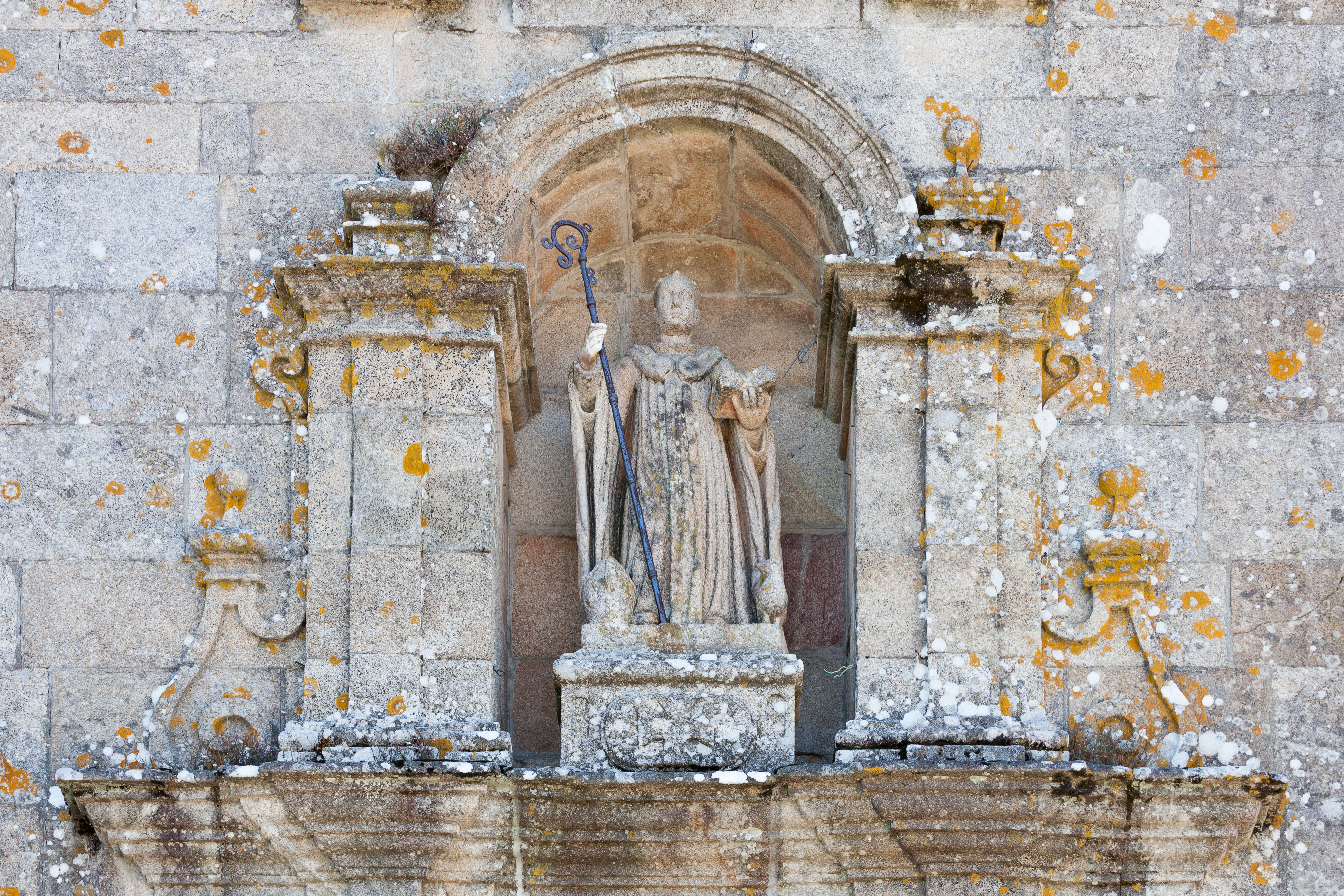 Sculpture of Saint Benedict, Lérez, Pontevedra, Galicia, (Spain).